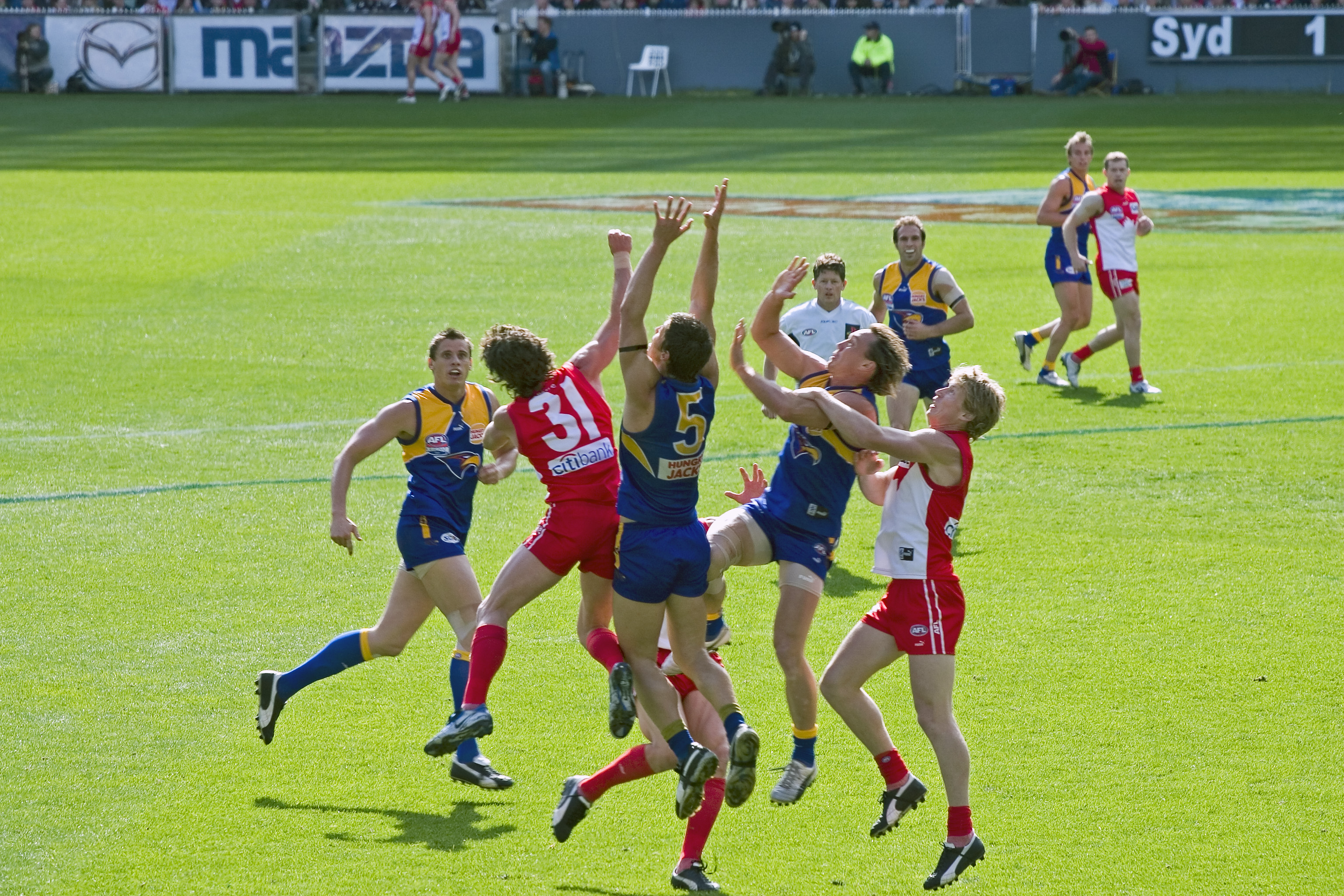 Players fly for the mark